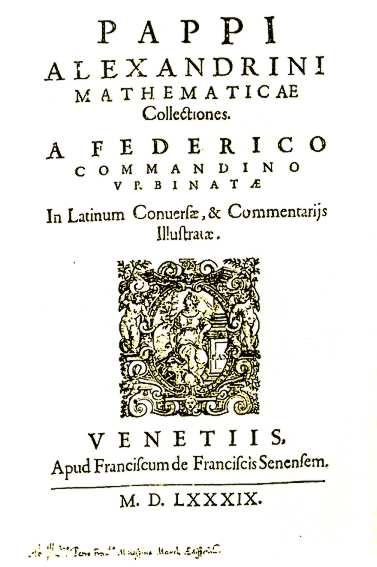 Cover of "Mathematicae Collectiones", by Pappus, in a translation of Federico Commandino (1589).